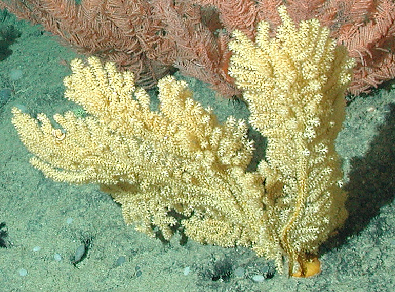 Caption: Gold coral (Acanthogorgia) and bottle-bushy coral (unidentified black coral) on the Davidson Seamount at 1957 meters depth. Image ID: expl0958, Voyage To Inner Space - Exploring the Seas With NOAA Collection Location: California, Davidson Seamount